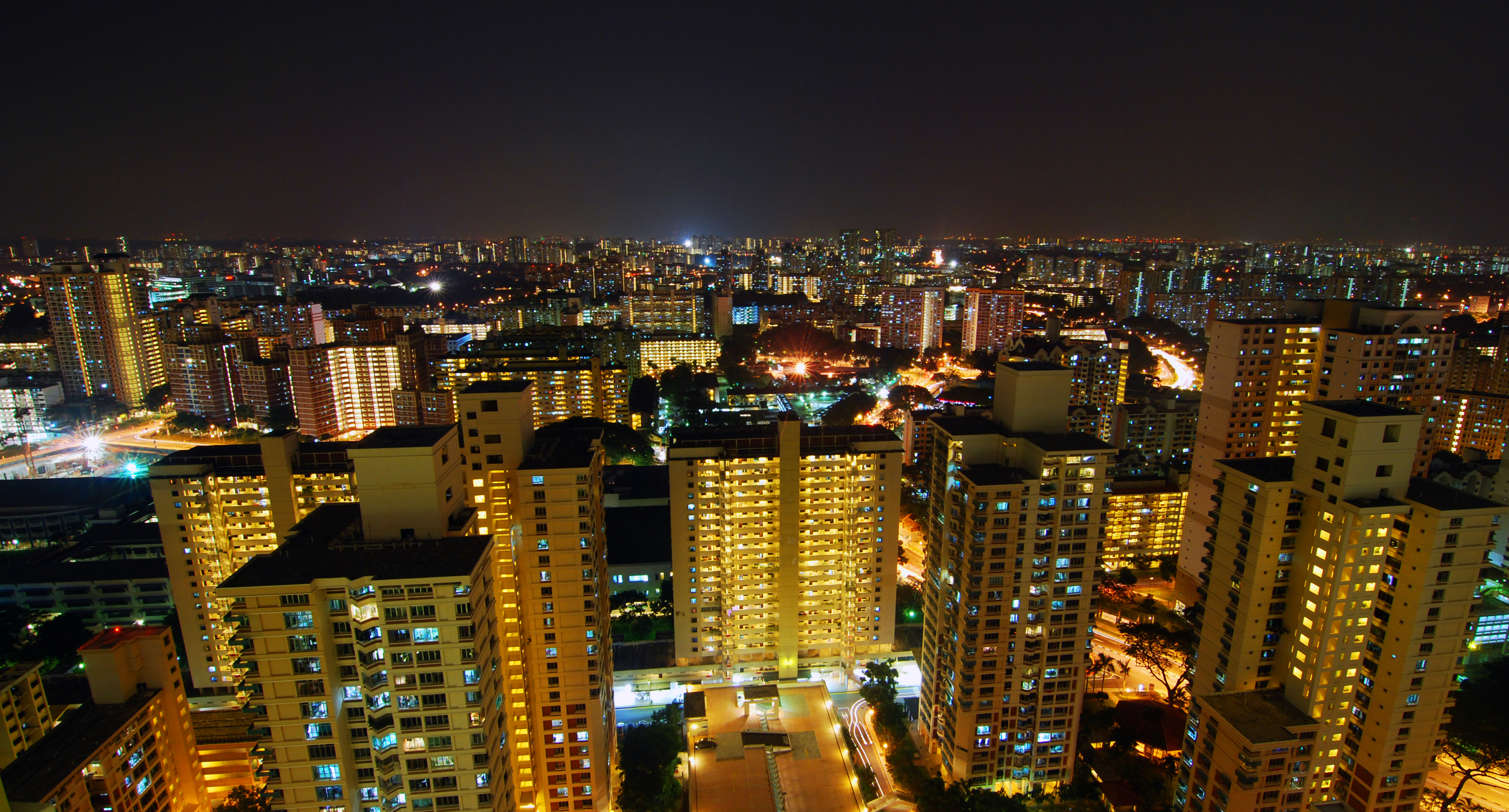 Toa Payoh, Singapore, at night. View from Block 79 (opposite Toa Payoh Central, facing north.